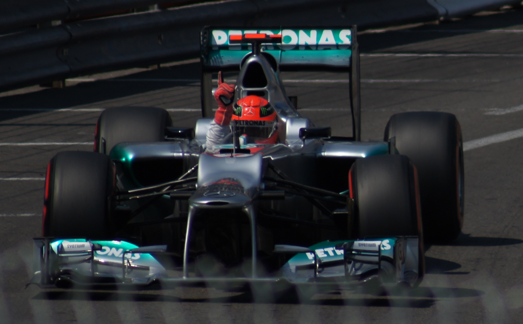 Michael Schumacher celebrates his best time in qualification (but not the pole) with Mercedes at the 2012 Monaco Grand Prix.